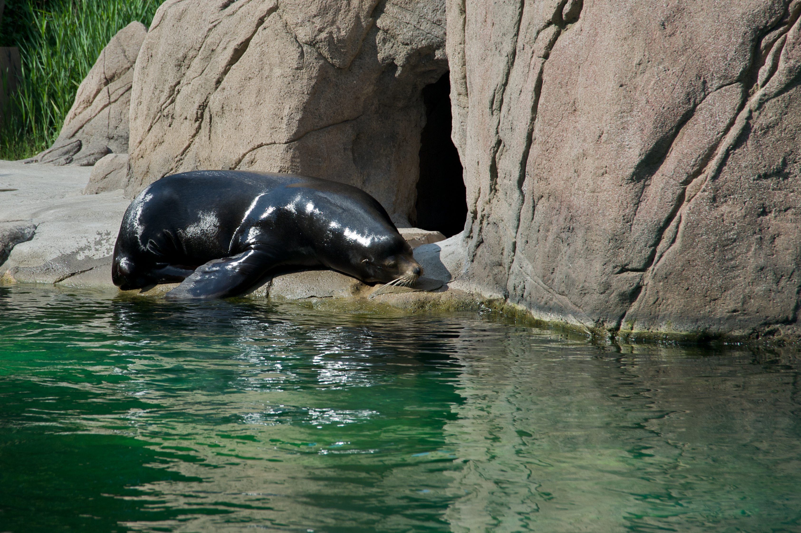 California Sea Lion at the Bronx Zoo